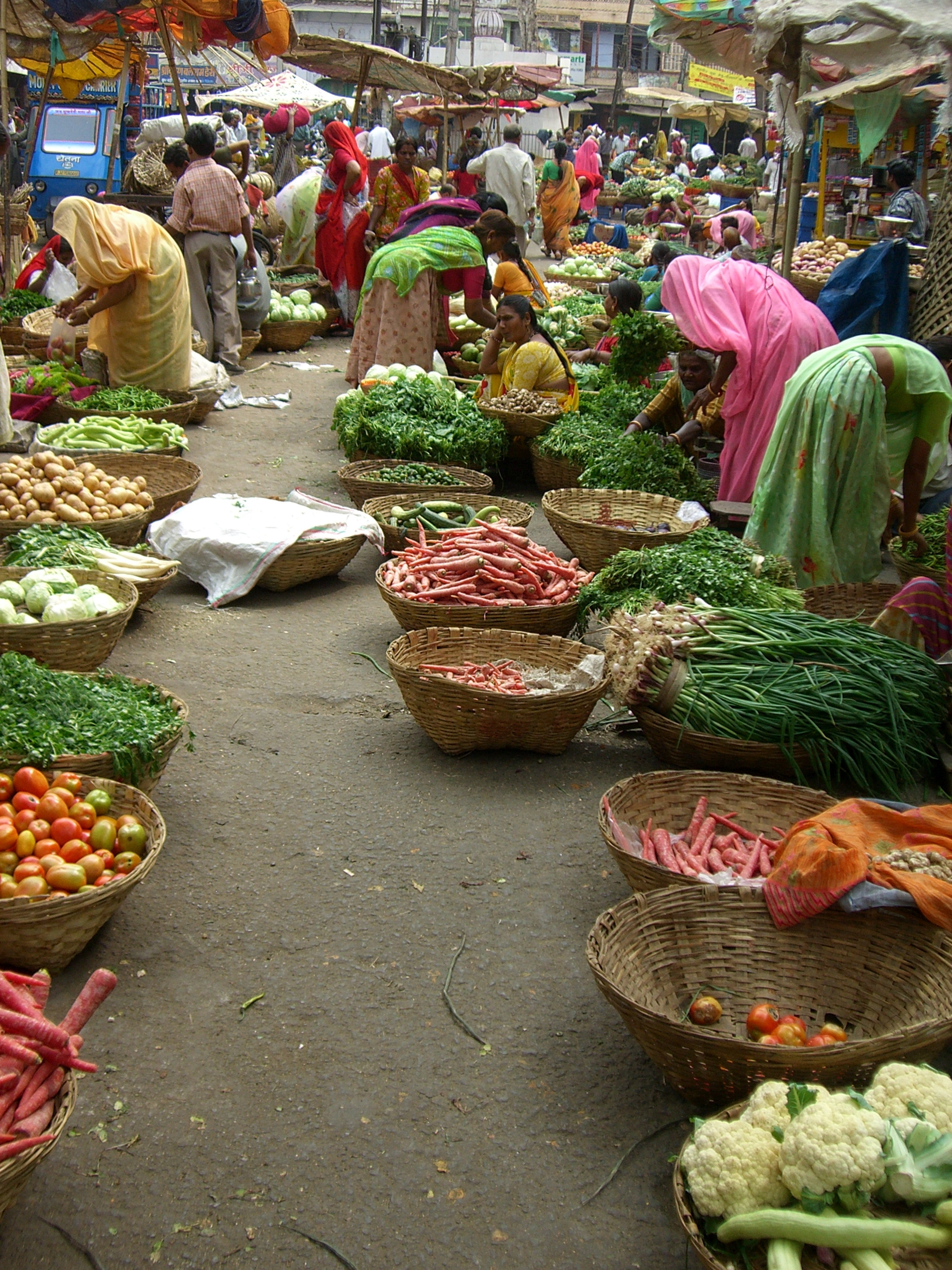 Market in Udaipur (India)